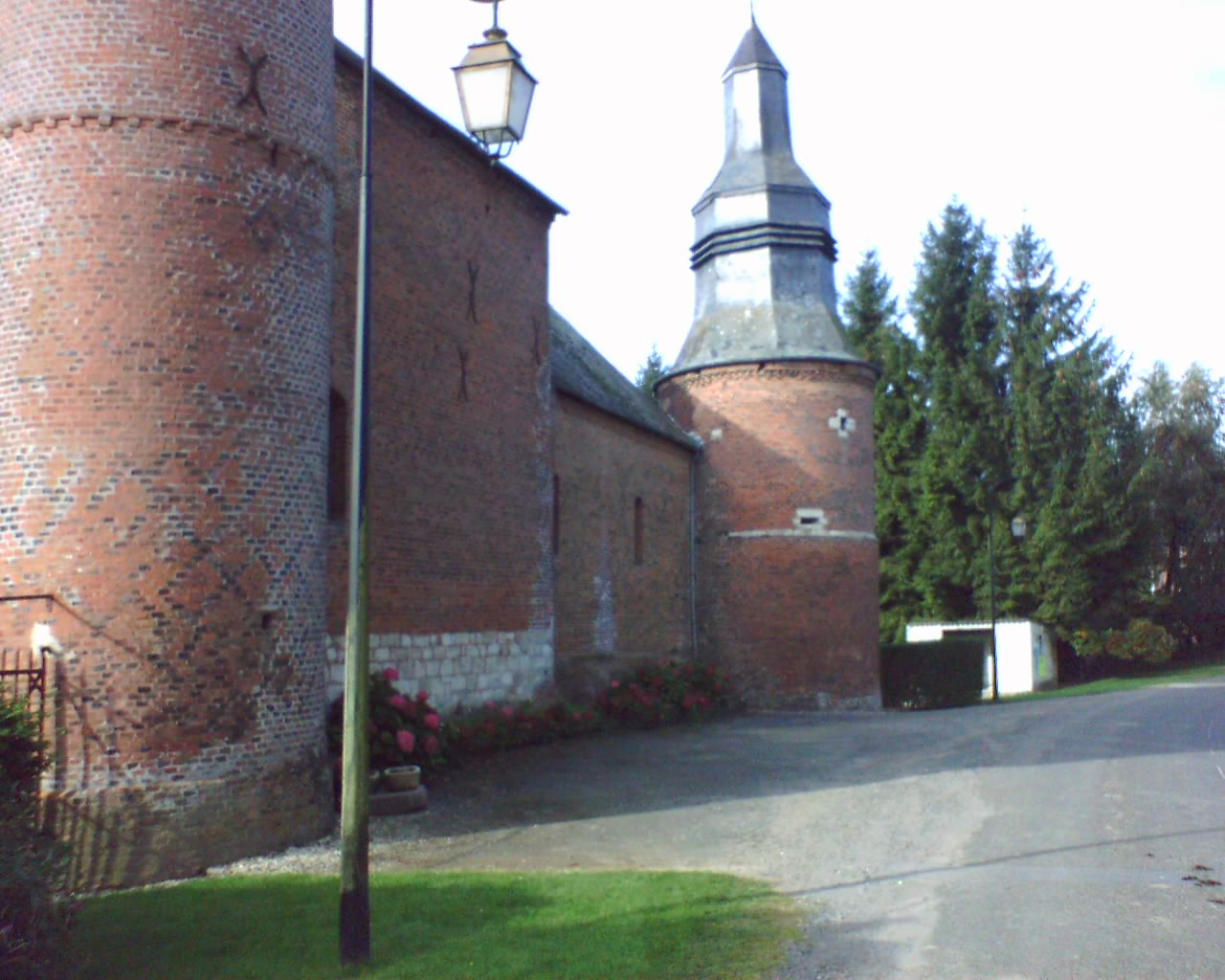 Cuiry-lès-Iviers church, 1691.